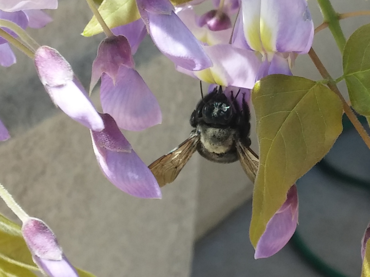 Female California carpenter bee (Xylocopa californica) on Chinese wisteria (Wisteria sinensis), Thousand Oaks, California.